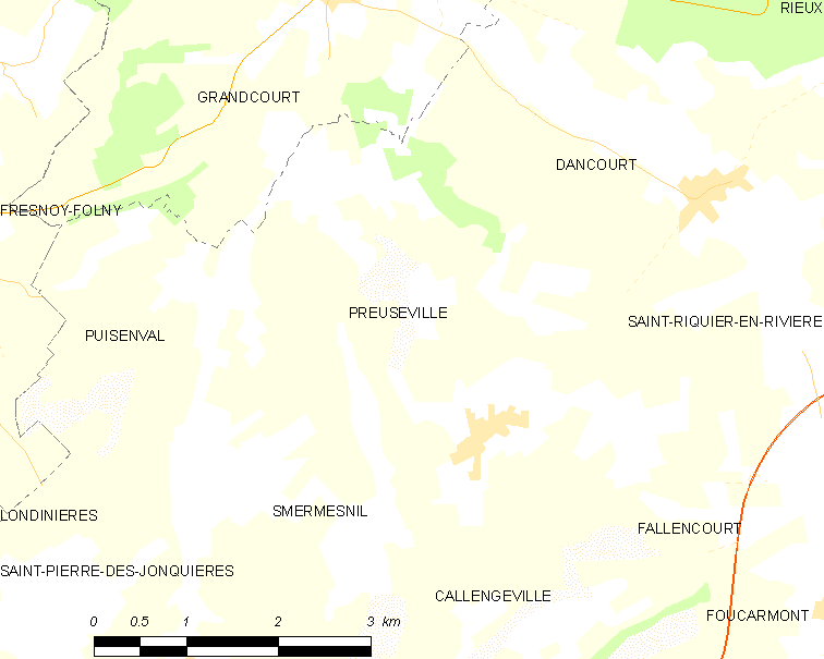 Map of French municipality Preuseville